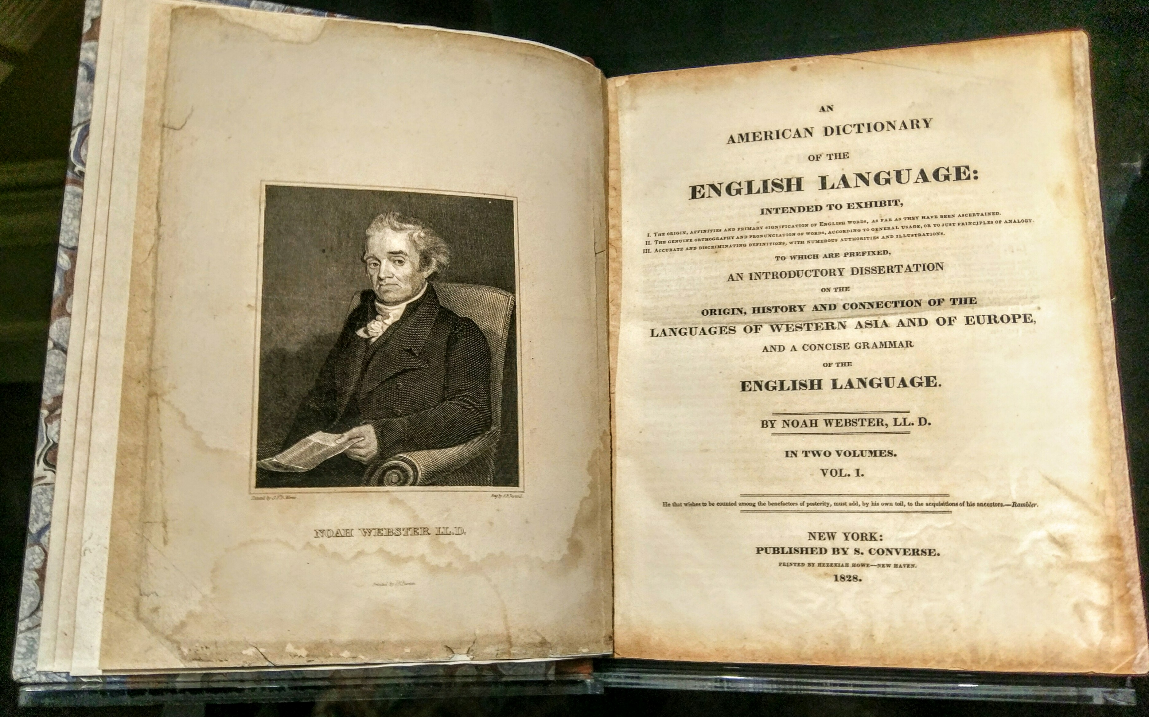 Title page of Noah Webster's 1828 edition of the American Dictionary of the English Language. Book owned by the California State Library. Photo by Jim Heaphy.